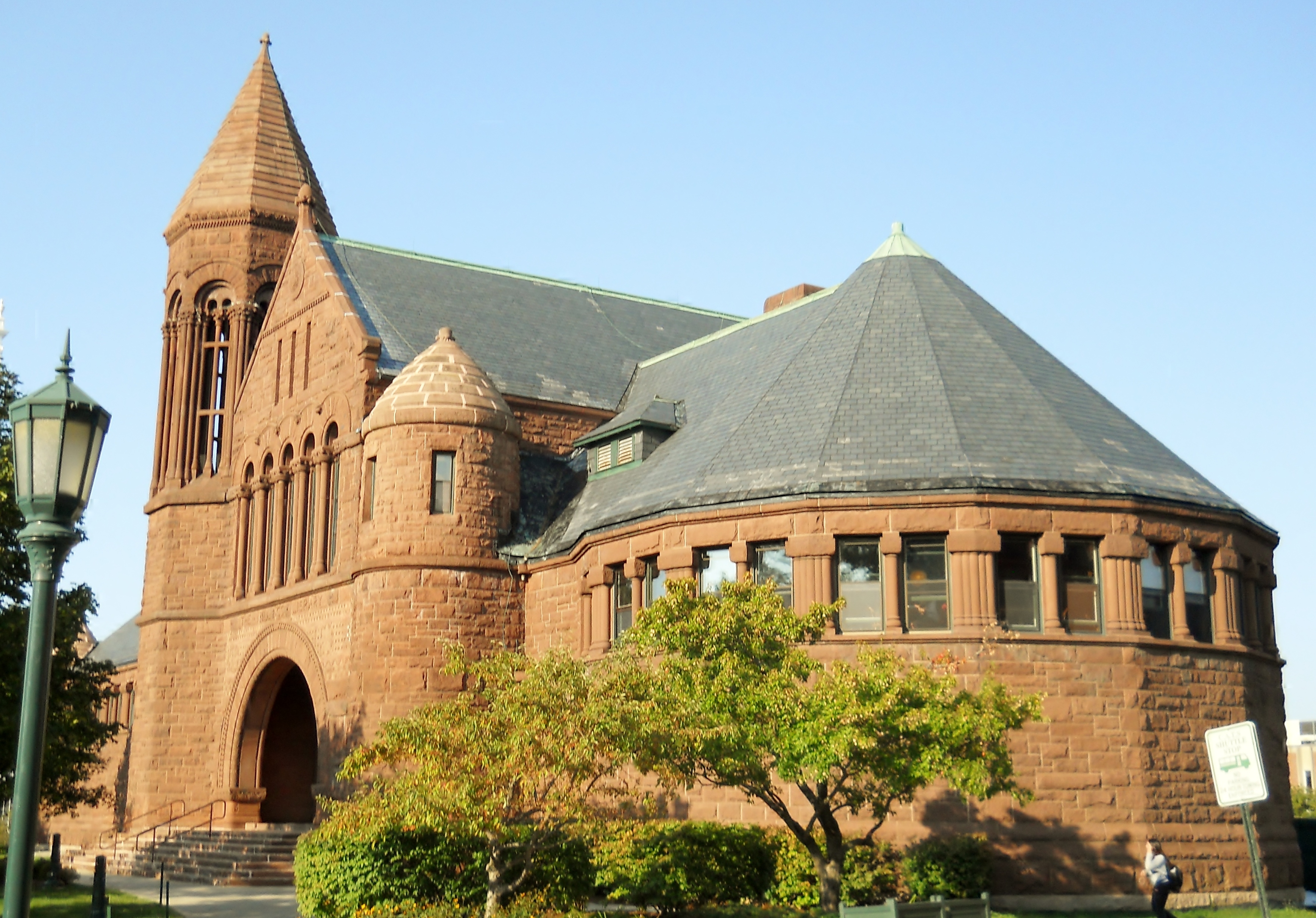 The Billings Memorial Library (now Billings Center) is one of the beautiful, historic buildings that sit along University Place on the campus of the University of Vermont in Burlington.